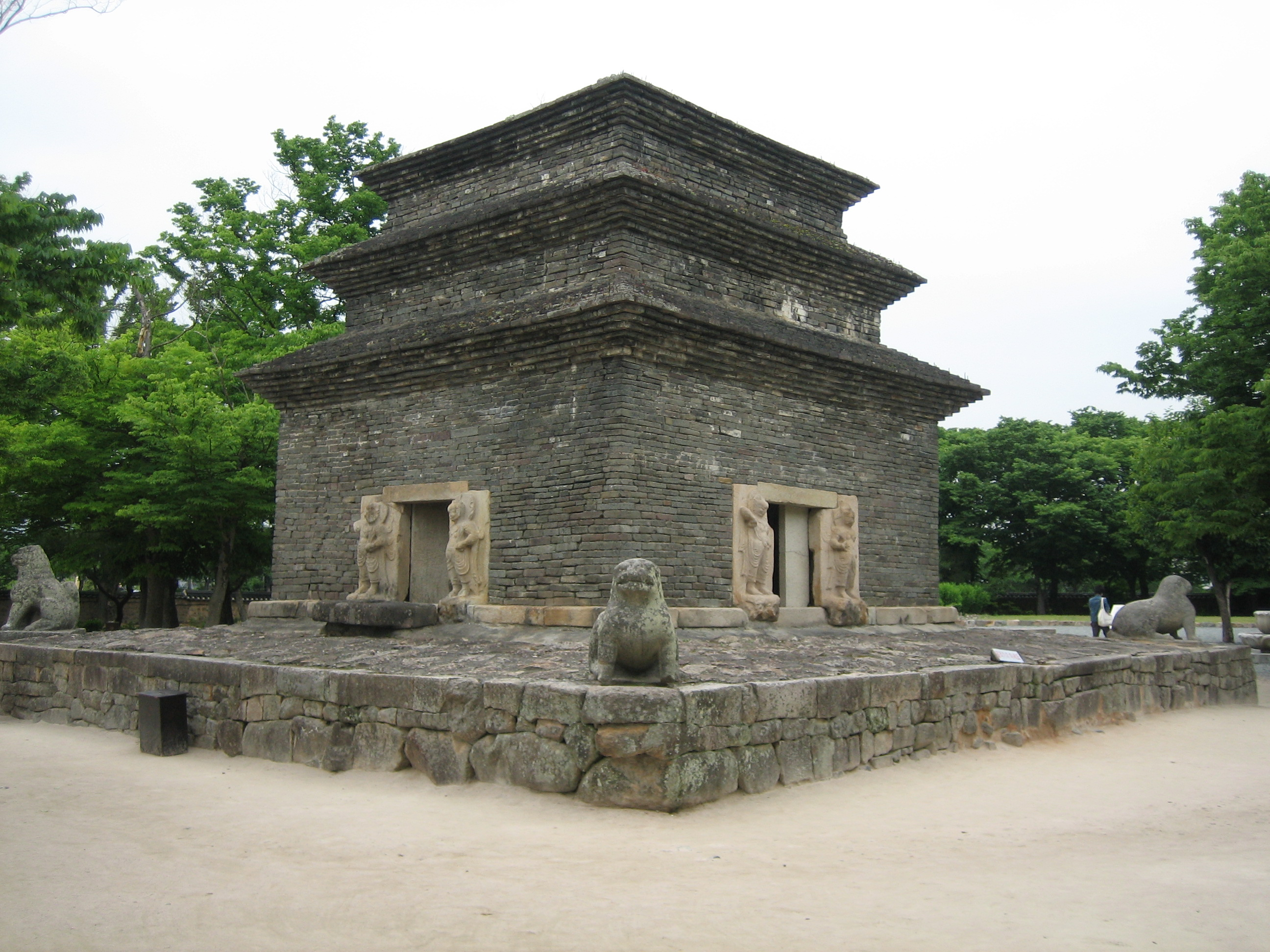 A view of Gyeongju, North Gyeongsang province, South Korea